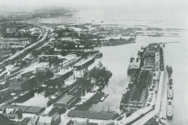 An aerial showing the Freeport of Copenhagen in 1927. Two transatlantic passenger ships of the Scandinavian America Line are docked at the West Quay, a steam ship of East Asiatic Company's type is seen in the East Basin. The Silo Warehouse is still seen on the tip of Midtermolen. For details, see here